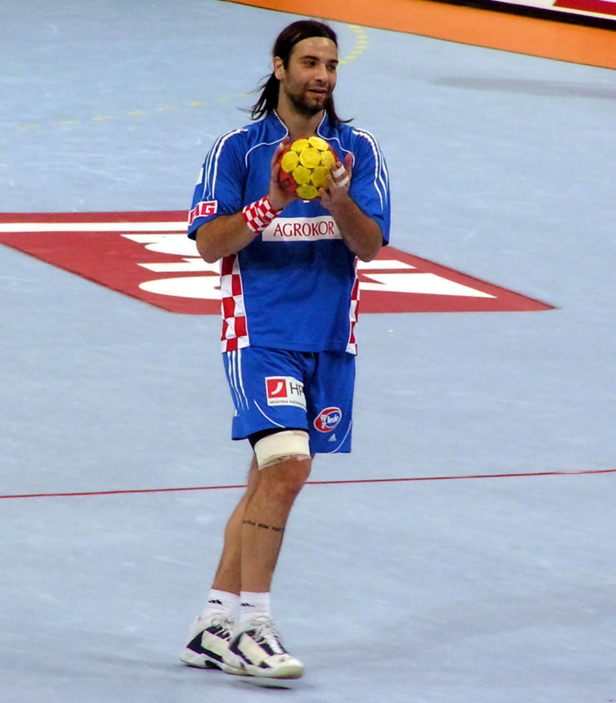 Ivano Balić, on January 24th 2007 in Mannheim , SAP-Arena (Germany), during the Handball World Championchip game Denmark - Croatia (26:28)